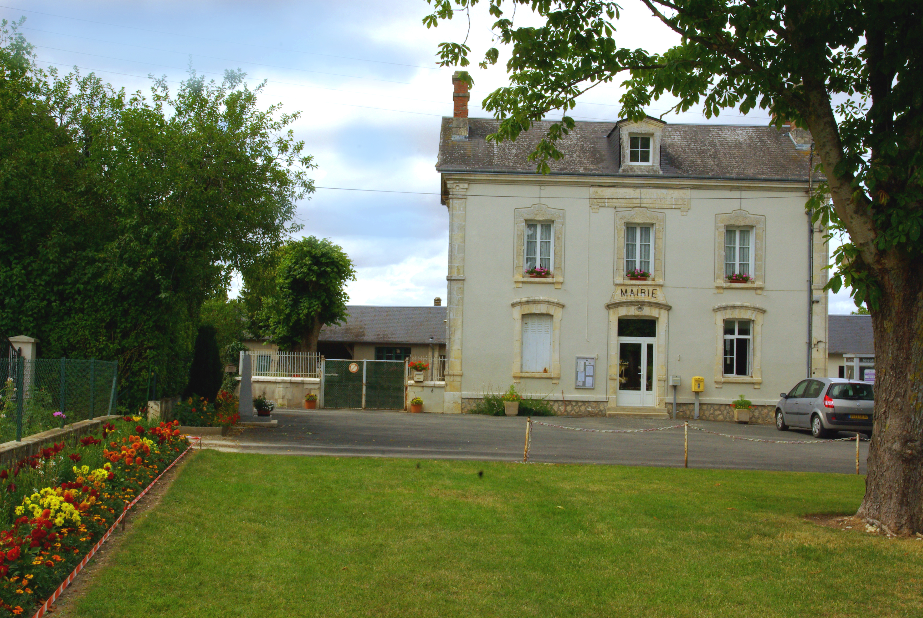 City Hall La Chapelle-Saint-Laurian